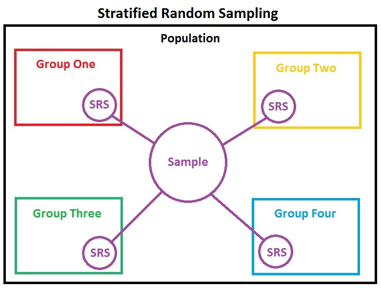 You take a stratified random sample by first dividing the population into homogeneous (similar within themselves) groups (strata) which are distinct from each other ie. Group 1 is different than Groups 2. Then choose a separate SRS (Simple Random Sample) from each stratum and combine these SRSs to form the full sample. Stratified Random Sampling is used to yield unbiased samples.